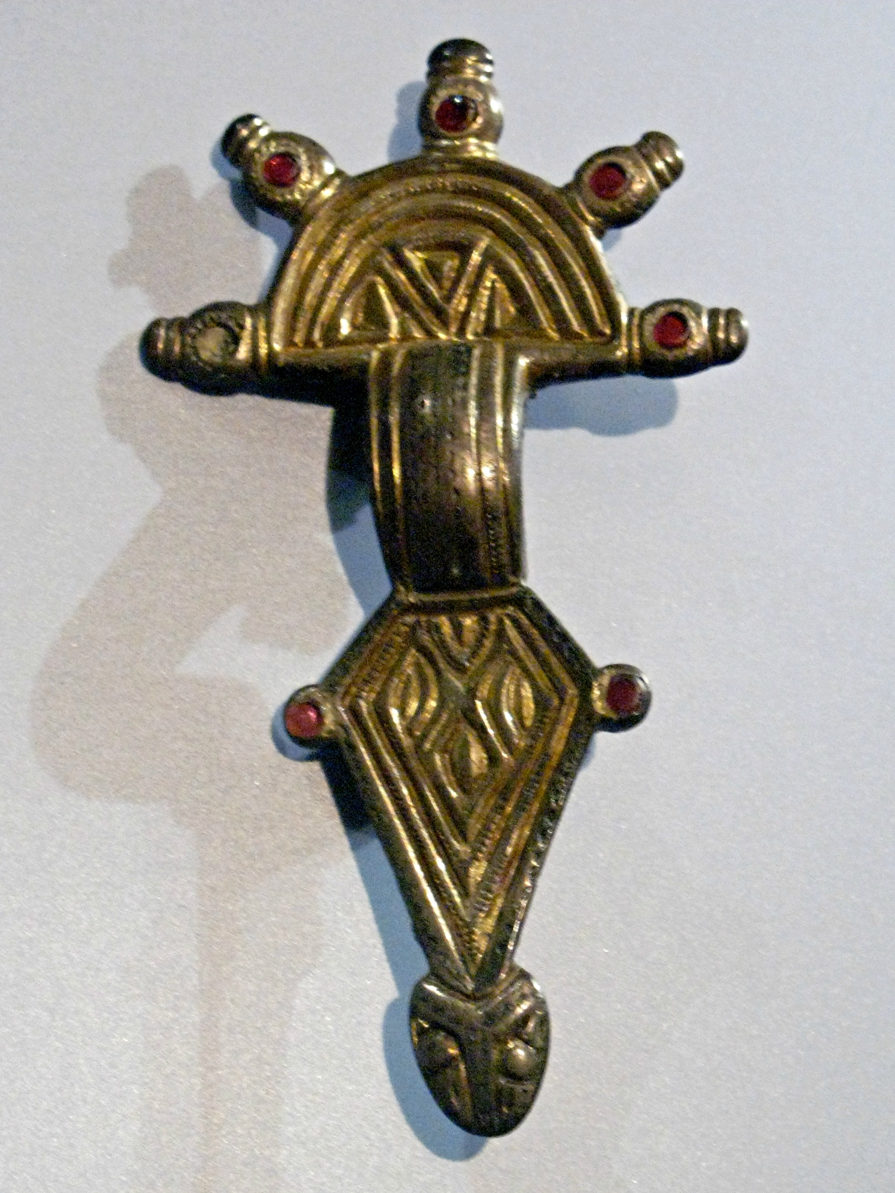 Gilt silver and glass radiate headed brooch, 500-600 AD, Chatham Lines, Kent, England. Ashmolean Museum, Oxford, England